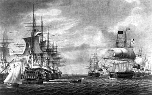 Surrender of Samuel Story's Dutch Texel squadron to a British-Russian fleet under Andrew Mitchell, 30th of August 1799 in the Vlieter